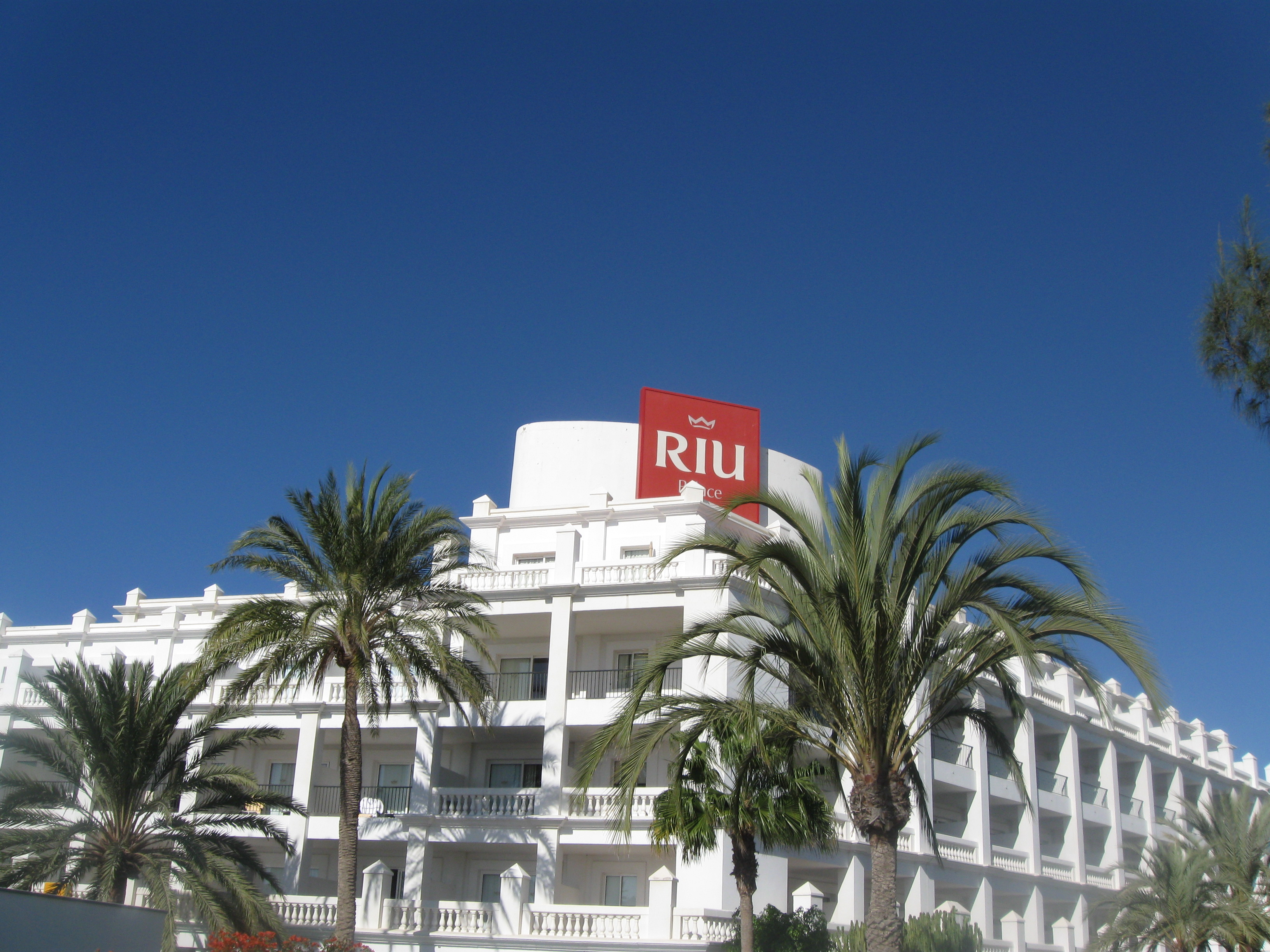 RIU Palace in Maspalomas, Gran Canaria, Spain